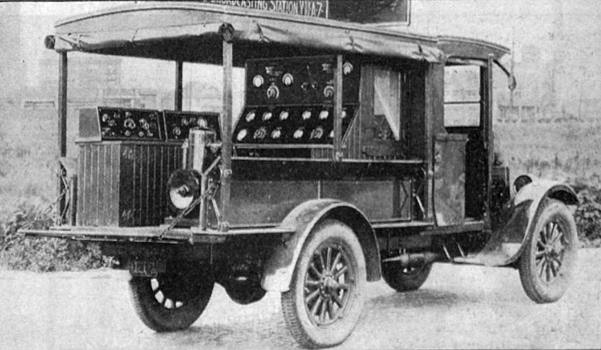 Truck-mounted portable radio station WJAZ, used by the Zenith Radio Corporation to evaluate candidate sites around Chicago for the station's permanent transmitter placement. Original caption: "A Traveling Broadcasting Station: The motor truck carrying a broadcasting station which has been traveling about near Chicago. It is said to be the first complete self-contained, self-sustaining battery-operated station functioning without any external source of supply and carrying its own antenna."